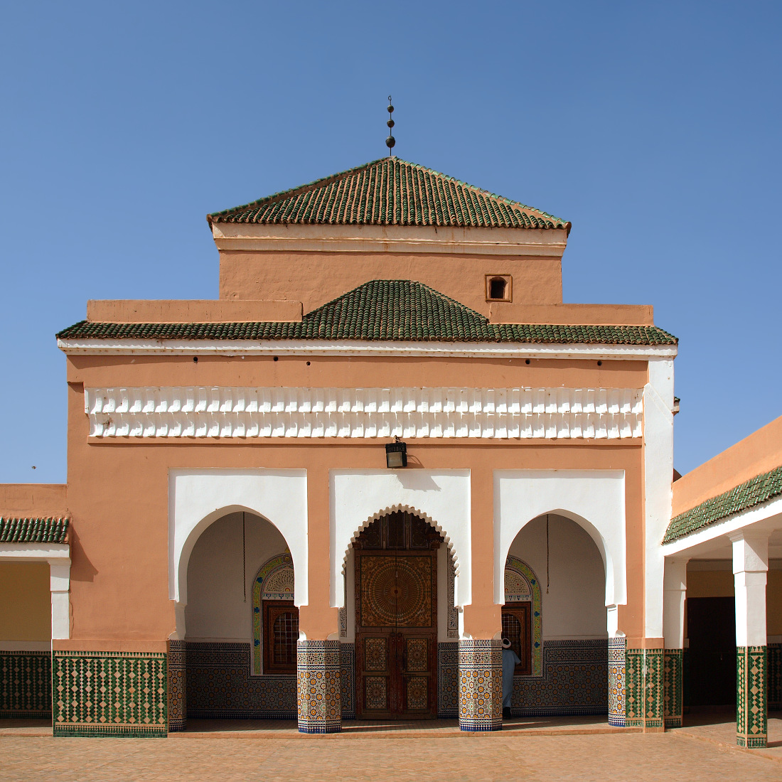 Zaouia Naciria (or Nasiriyya), in Tamegroute